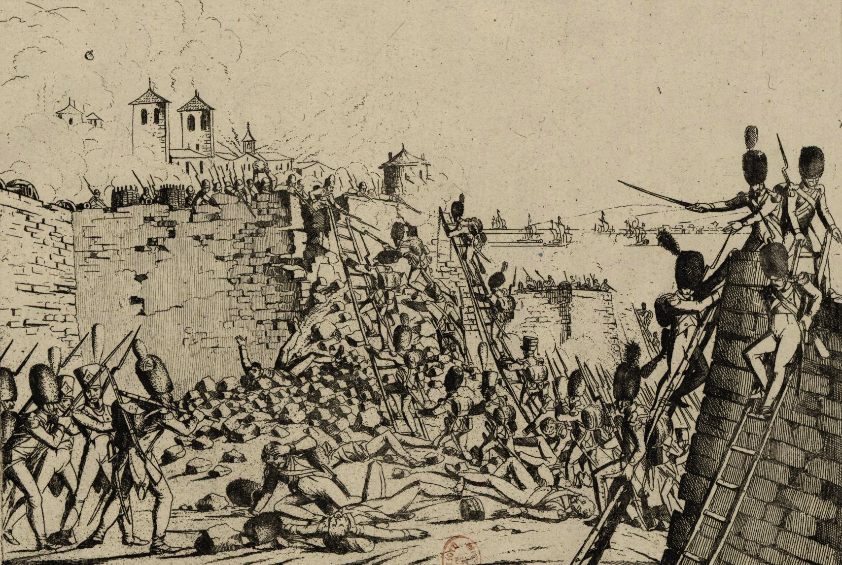 Illustration of the Napoleonic troops assaulting Tarragona (Catalonia) in 1811